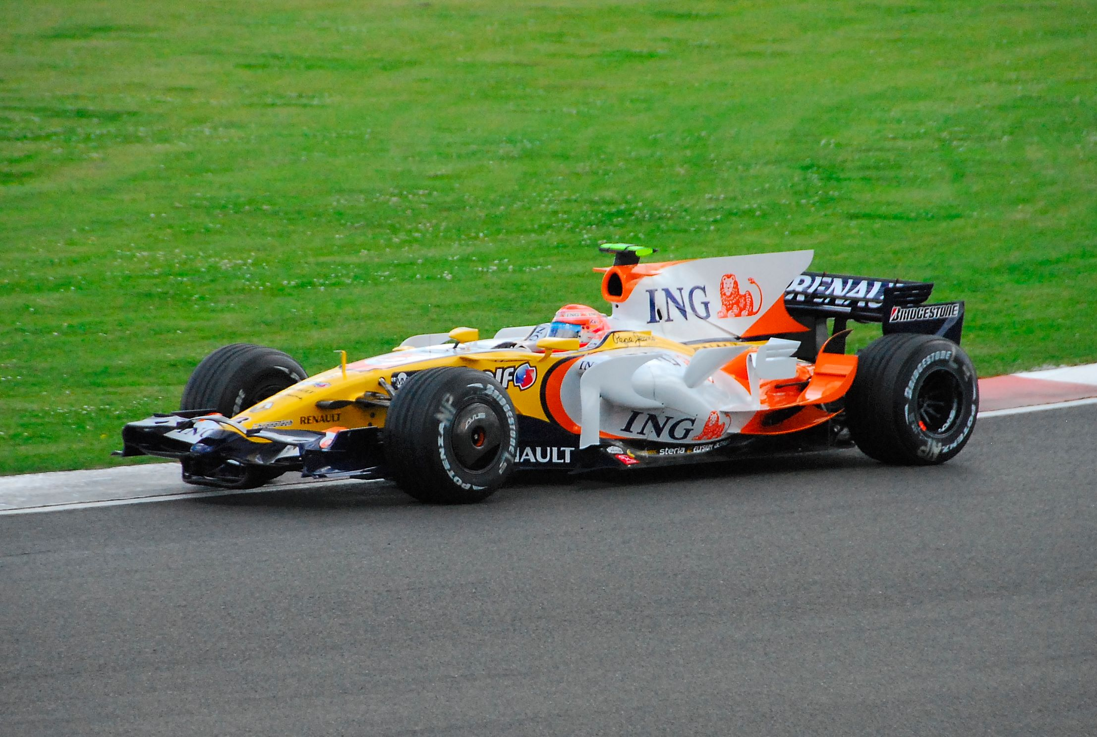 Nelson Piquet driving for Renault F1 at the 2008 British Grand Prix.